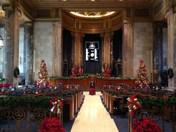 Louisiana Senate Chamber view of the Senate President's Chair